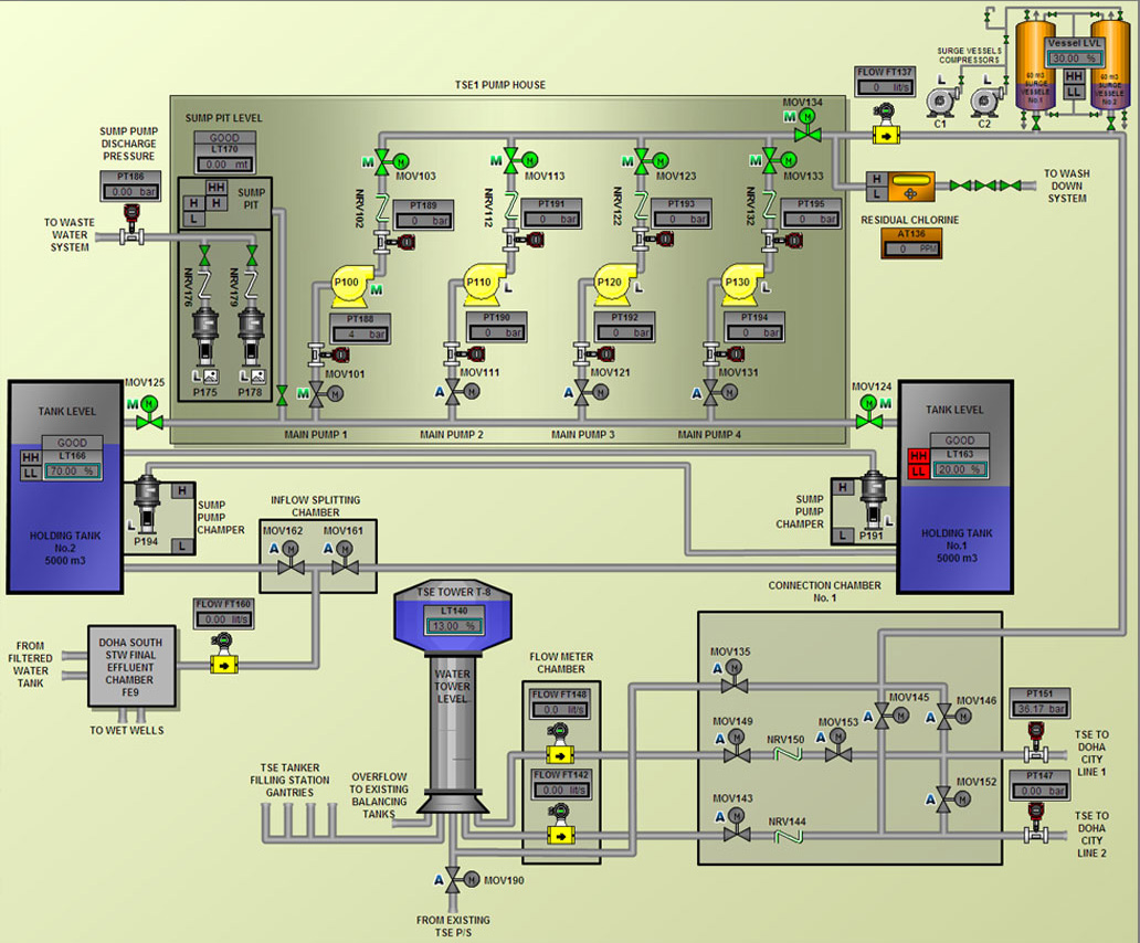 SCADA Example